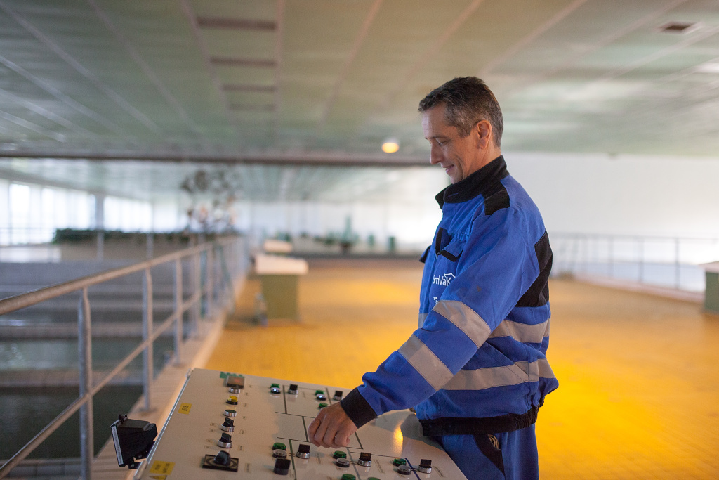 Úpravna vody Nová Ves u Frýdlantu nad Ostravicí - obsluha pískových filtrů, autor: Boris Renner